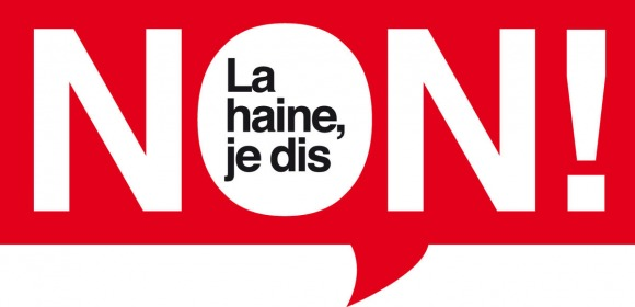 Logo du slogan distribué par la communauté française pour lutter contre le racisme et la discrimination.